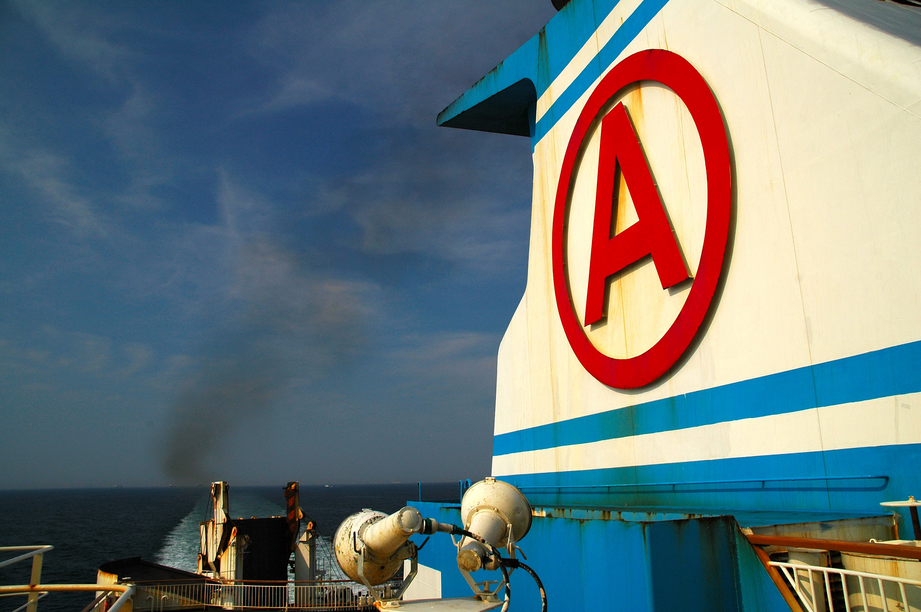 This is a funnel of the Cruise Ferry Hiryu.